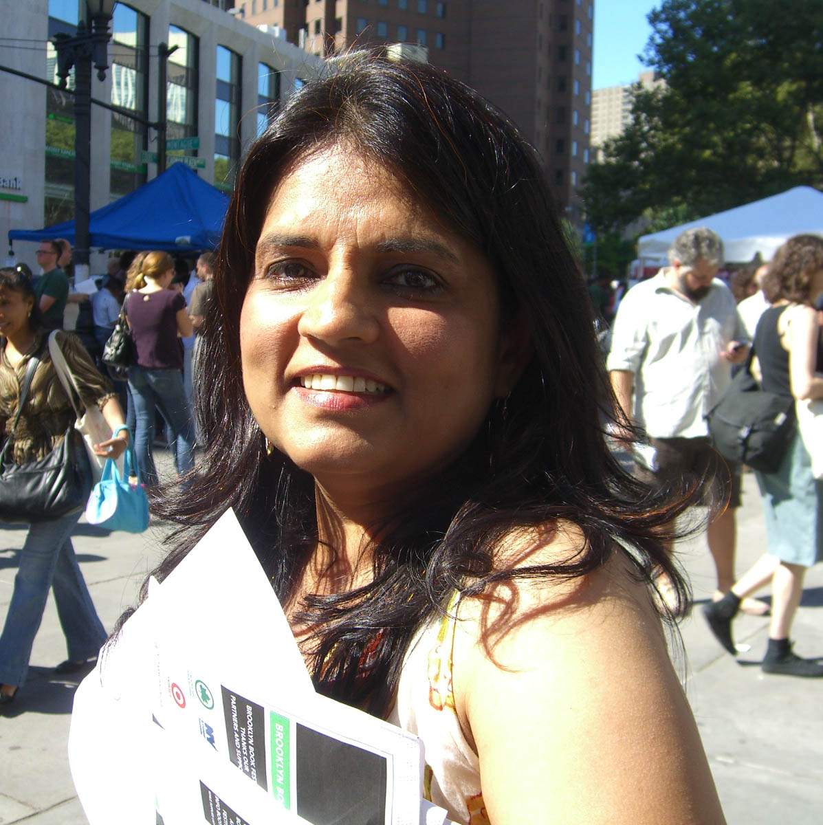 Film Director Mira Nair at the 2009 Brooklyn Book Festival.